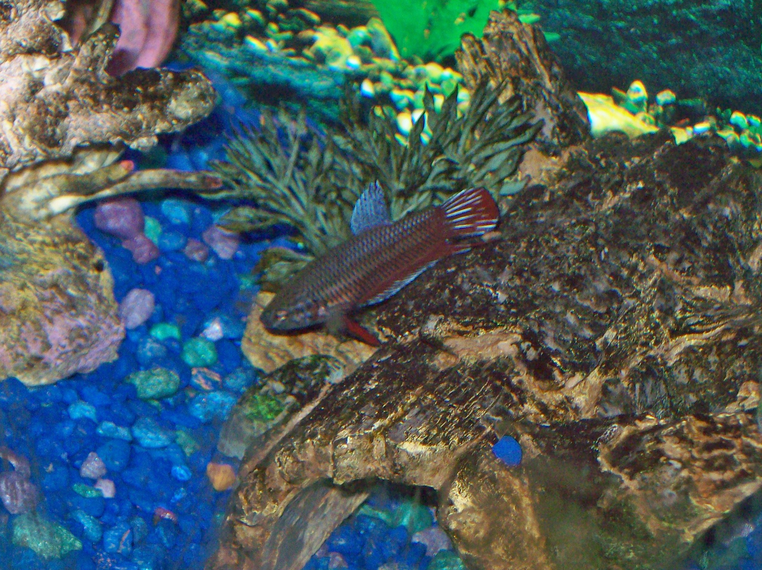 A Female Betta